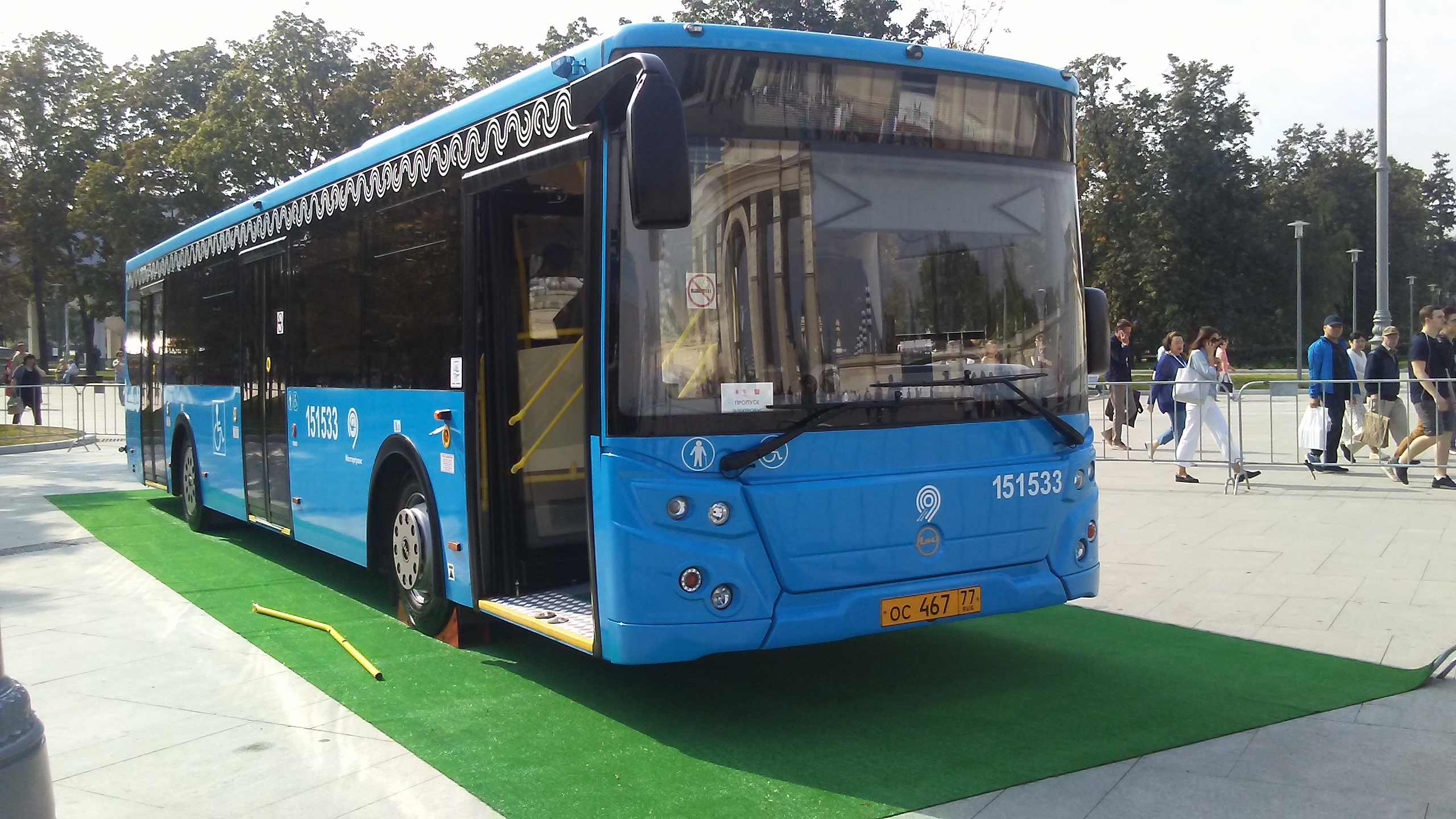 LiAZ-5292 bus, Moscow